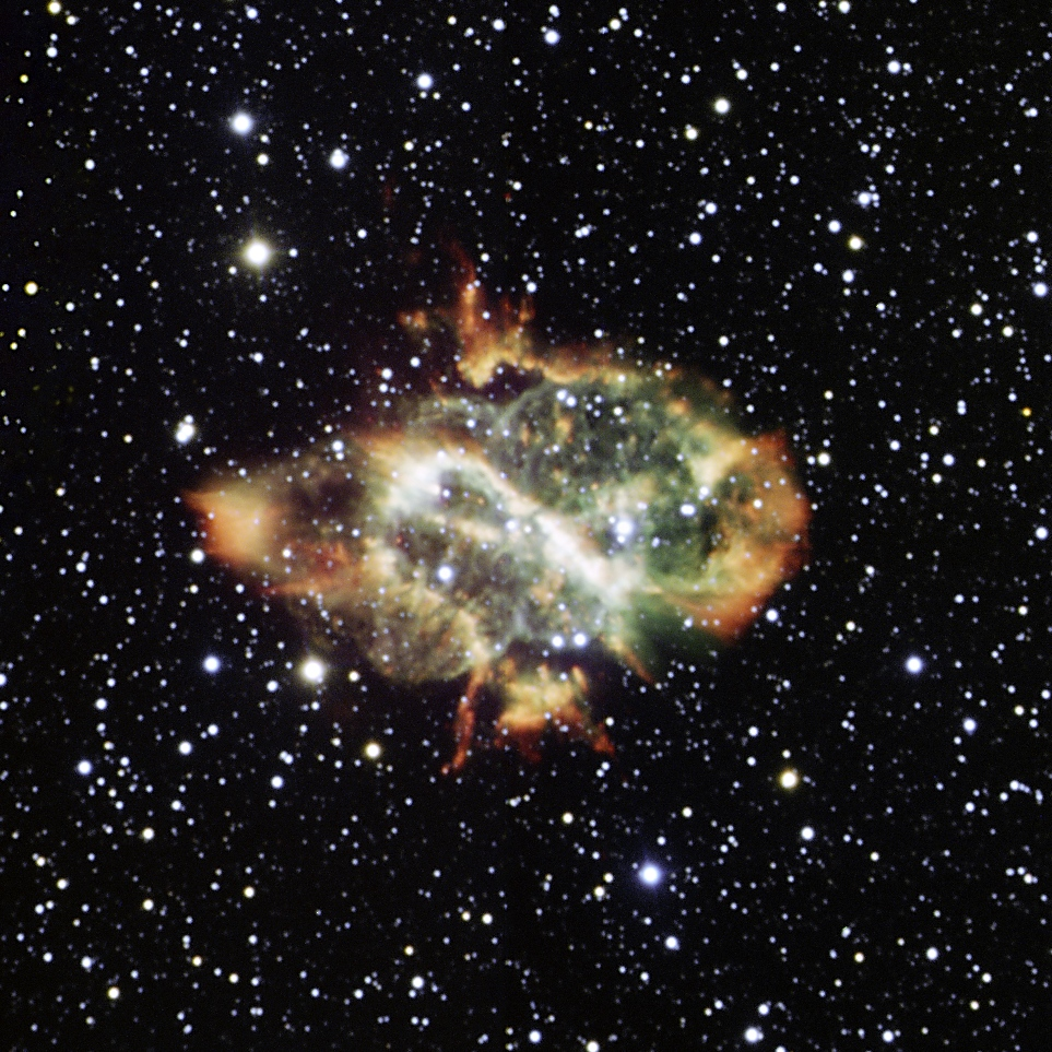 NGC 5189 is a planetary nebula with an oriental twist. Similar in appearance to a Chinese dragon, these red and green cosmic fireworks are the last swansong of a dying star. At the end of its life, a star with a mass less than eight times that of the Sun will blow its outer layers away, giving rise to a planetary nebula. Some of these stellar puffballs are almost round, resembling huge soap bubbles or giant planets (hence the name), but others, such as NGC 5189 are more intricate. In particular, this planetary nebula exhibits a curious “S”-shaped profile, with a central bar that is most likely the projection of an inner ring of gas discharged by the star, seen edge on. The details of the physical processes producing such a complex symmetry from a simple, spherical star are still the object of astronomical controversy. One possibility is that the star has a very close (but unseen) companion. Over time the orbits drift due to precession and this could result in the complex curves on the opposite sides of the star visible in this image. This image has been taken with the New Technology Telescope at ESO’s La Silla Observatory in Chile, using the now decommissioned EMMI instrument. It is a combination of exposures taken through different narrowband filters, each designed to catch only the light coming from the glow of a given chemical element, namely hydrogen, oxygen and nitrogen. Credit: ESO Id: potw1012a Release Date: Mar 22, 2010, 08:21 CET Size: 963 x 963 px